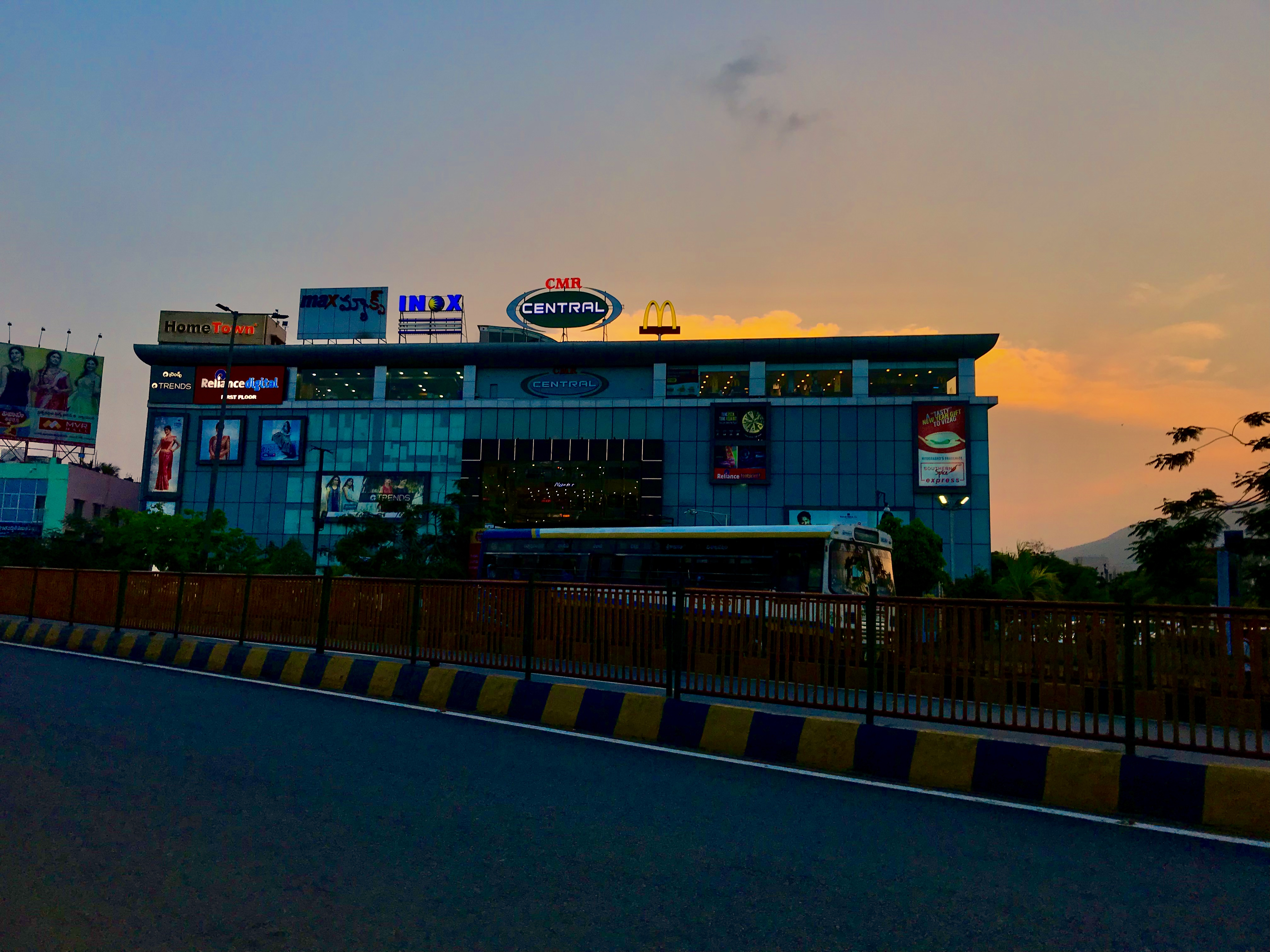 CMR Central mall during Sunset